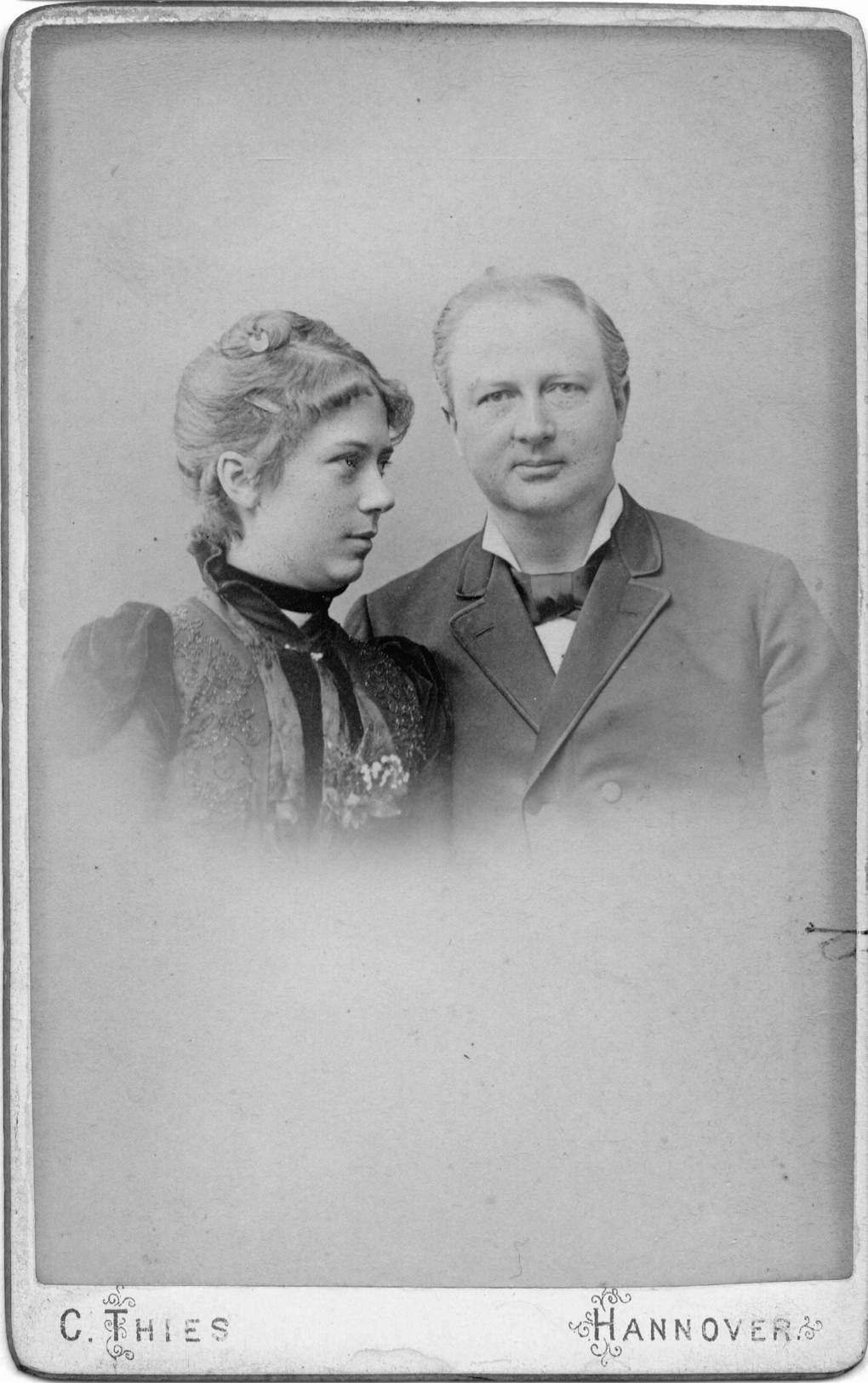 Scanned photography (scanned by me). The original photograph was made by Carl Thies (d. 1930